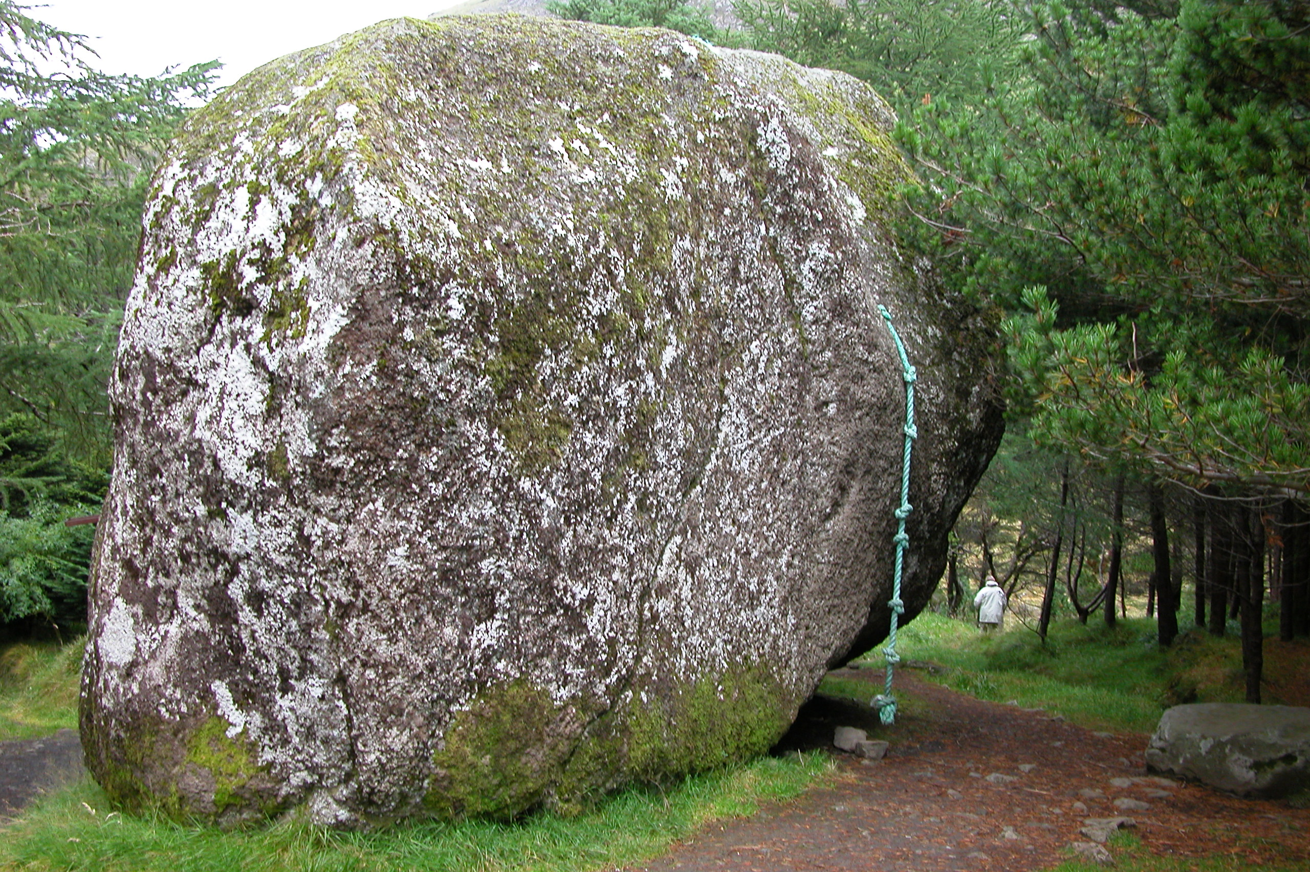 Kunoy, Faroe islands